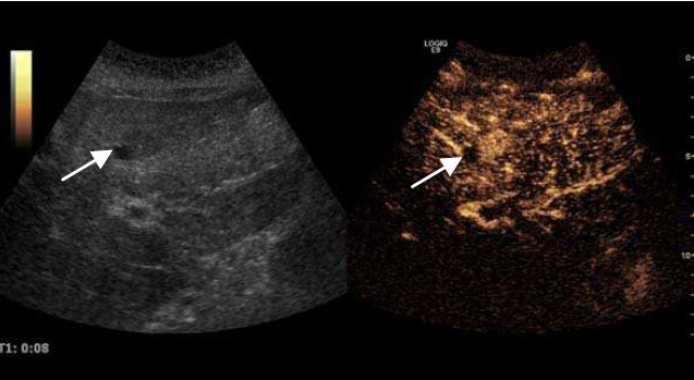 Contrast-enhanced ultrasound of a metastasis of ovarian cancer in the liver.